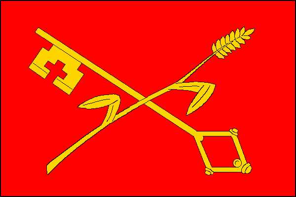 Flag of Jesenice municipality, Prague-West District, Czech Republic.